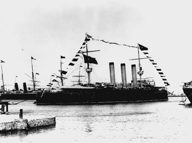 At Port Said, Egypt, 26 June – 11 July 1898, while serving with Rear Admiral Manuel de la Camara's squadron. This cruiser was begun as Emperador Carlos V, but her name was shortened prior to completion. Ship at left, with two smokestacks, is a Spanish transport, either Covadonga or Colon. Copied from Office of Naval Intelligence Album of Foreign Warships. Photo #: NH 46869-A